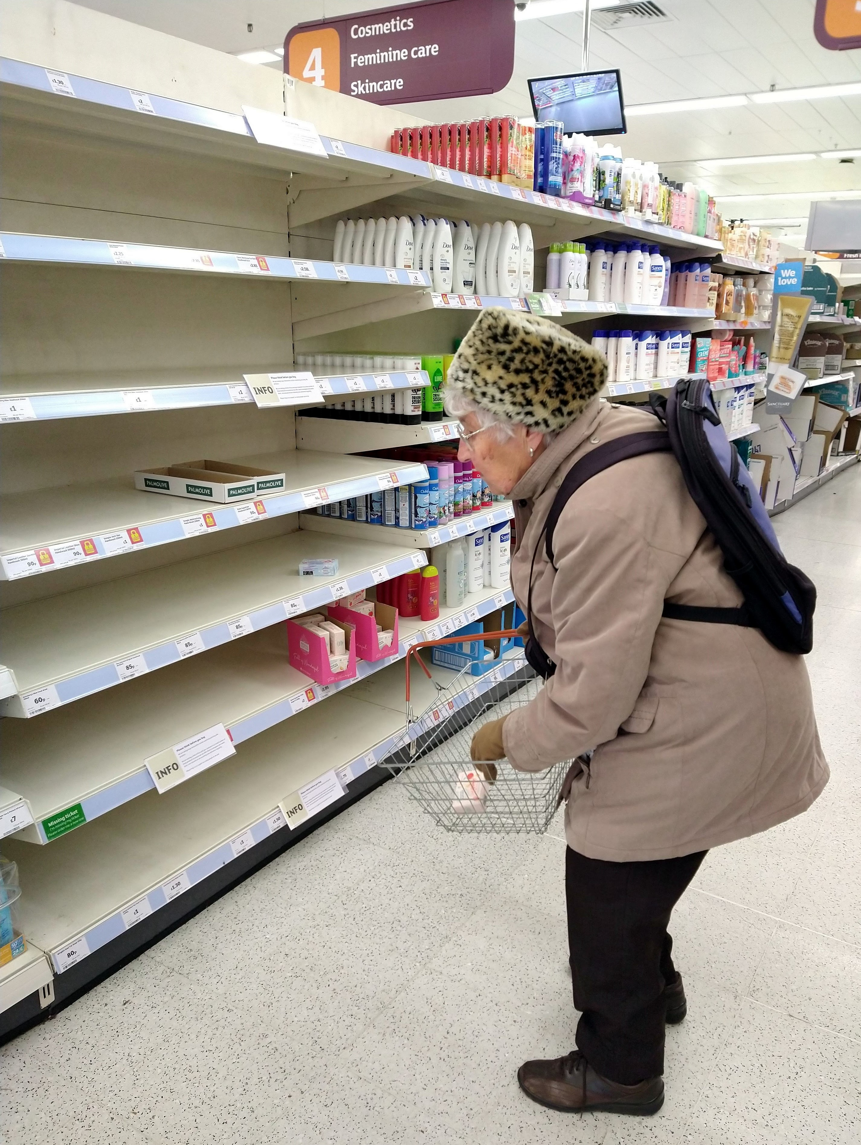 Looking for soap,Sainsburys, north London 12 March 2020